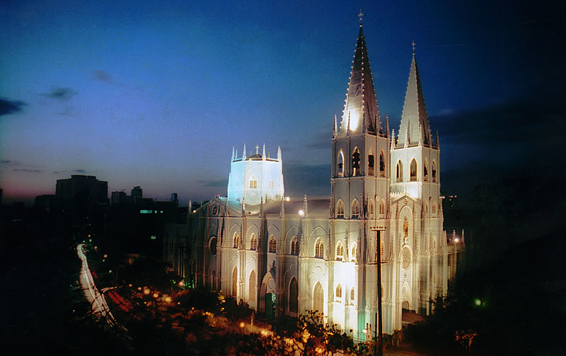 Basílica de San Sebastián, Manila, Filipinas